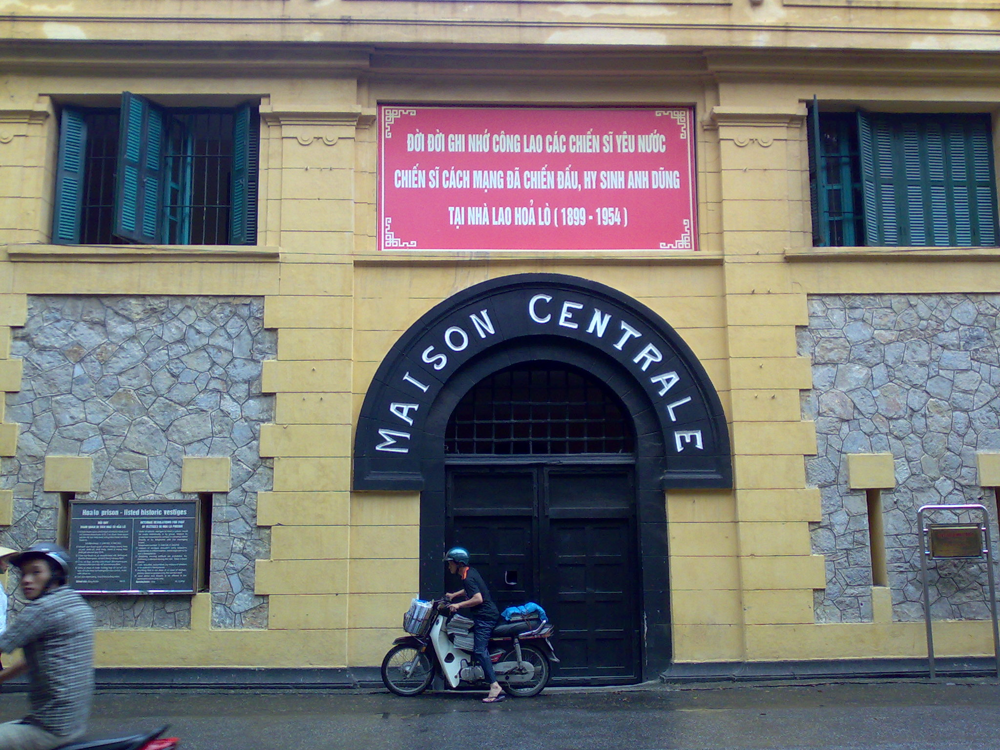 A postman delivered newspaper to Hanoi Hilton in the morning